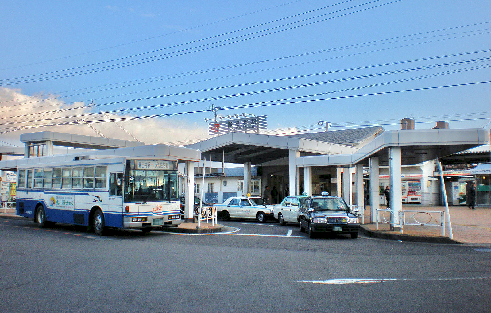 North entrance of JR Kasugai station